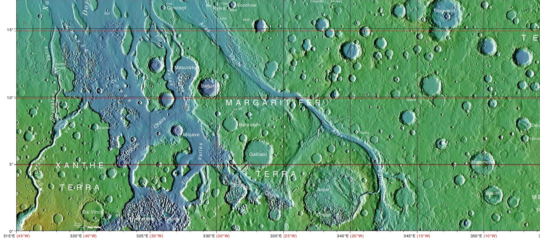 Modified map showing many chaos regions.